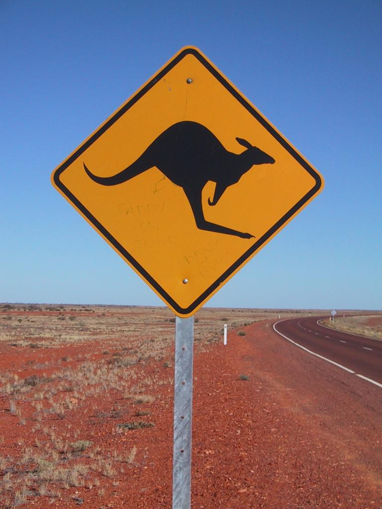 A picture of a kangaroo sign at stuart higway.